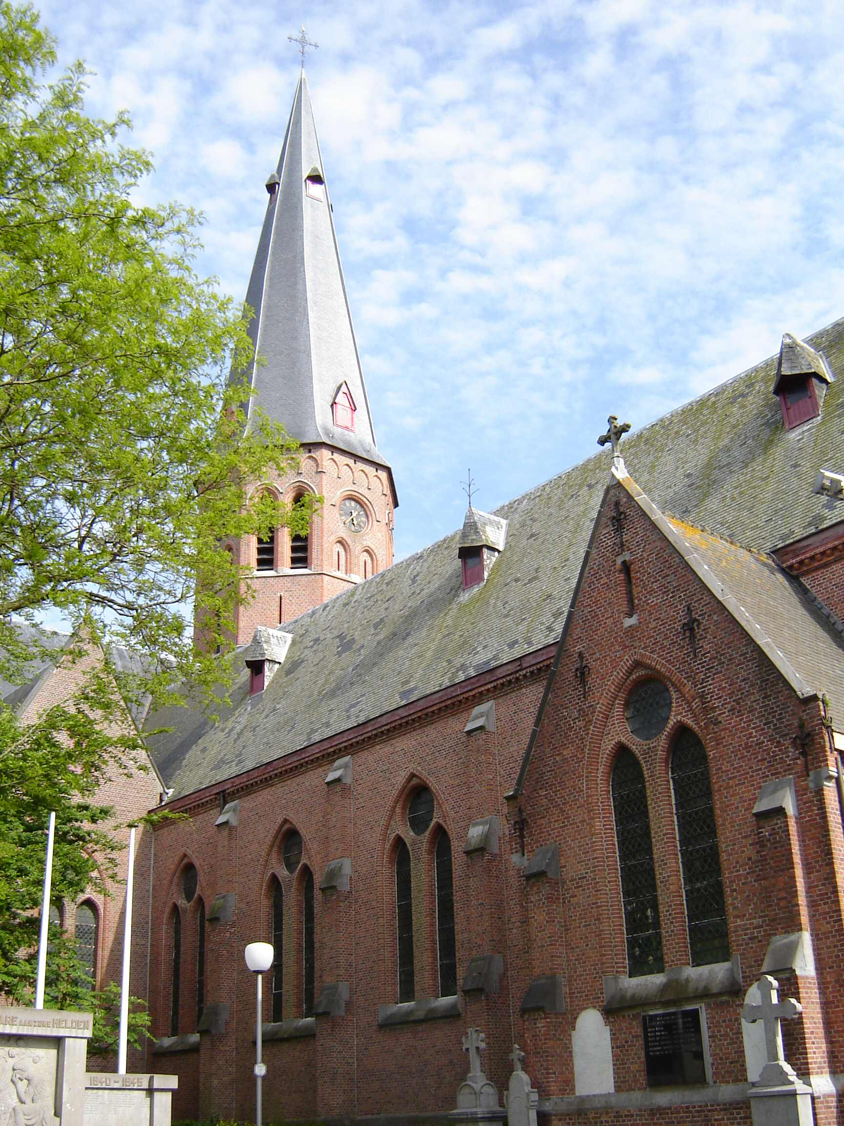 Sint Martinus Church in Koekelare, West-Flanders, Belgium, seen from the north